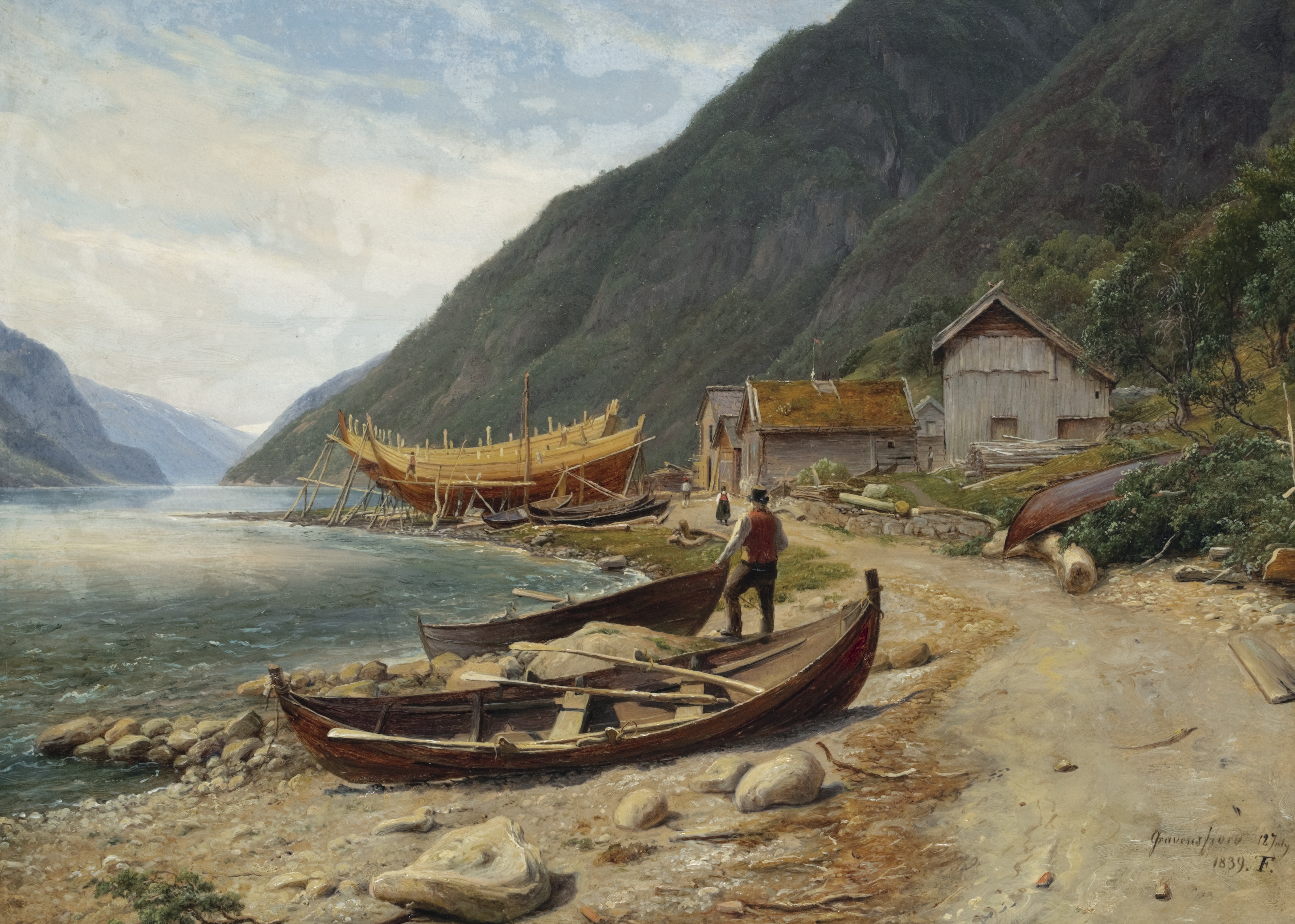 Gravensfjord is the former name for Granvinfjord, a side fjord Hardangerfjord in Hordaland, located on Norway's south western coast near Bergen.